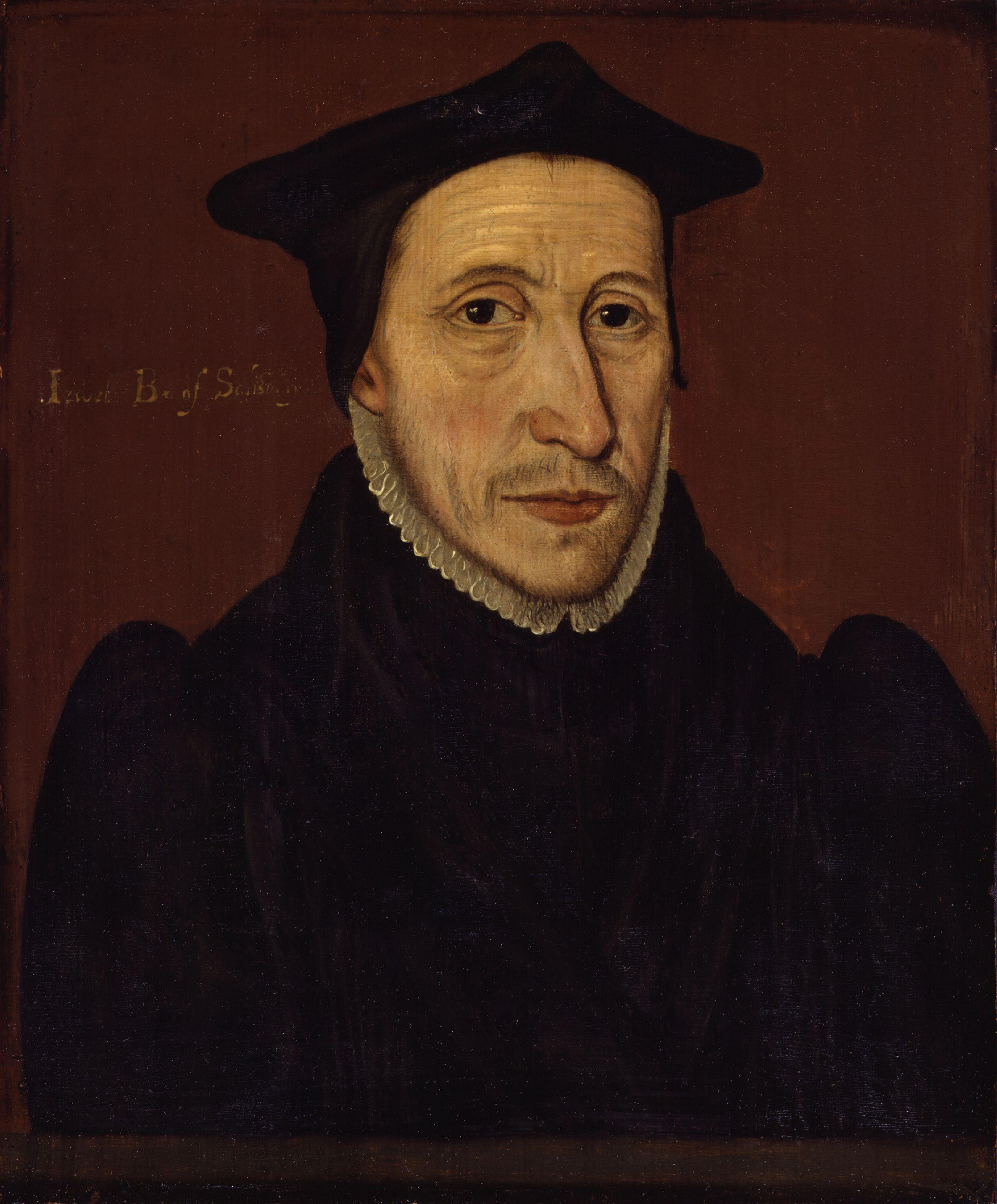 John Jewel. All images in this batch are listed as "unknown author" by the NPG, who is diligent in researching authors, and was donated to the NPG before 1939 according to their website.